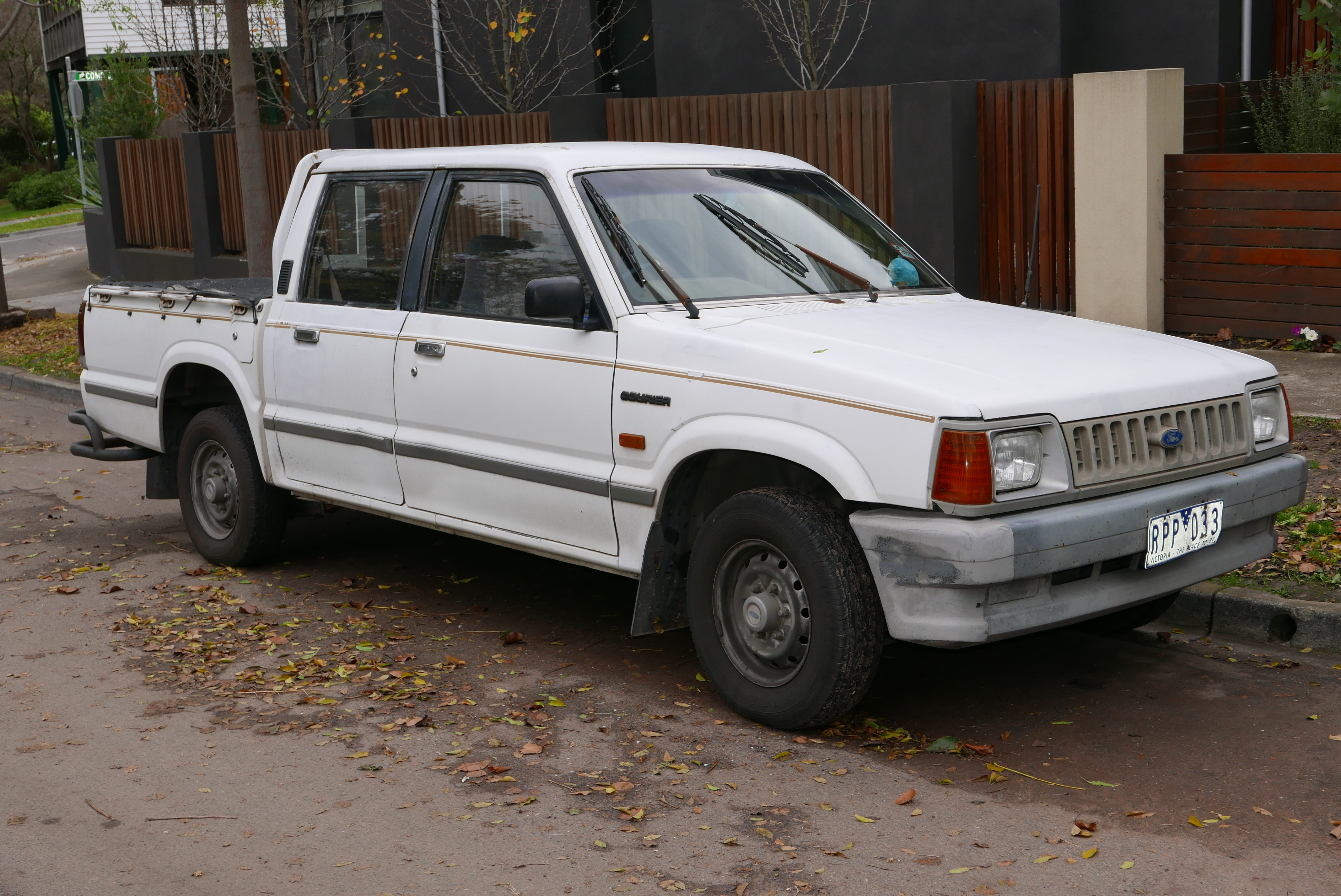 1990 Ford Courier (PC) 2WD 4-door utility. Photographed in Alphington, Victoria, Australia. Vehicle registration enquiry results Jurisdiction Victoria Registration RPP033 Chassis code JC0AAASGHPLR24596 Engine code F2440639 Compliance date 1990-11 Year of manufacture 1991 (not a typo)